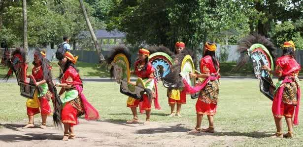 ebeg atau kuda lumping banyumasan